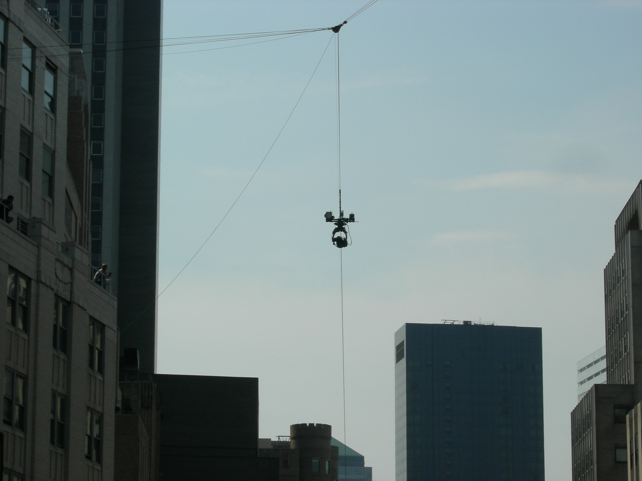 The Spydercam films a swing shot for Spider-Man 3.